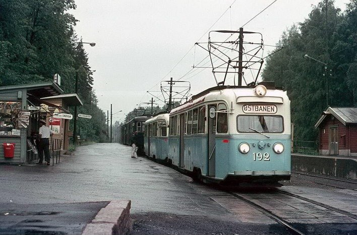 Gullfisk B1 and C2 (background) at Jar.